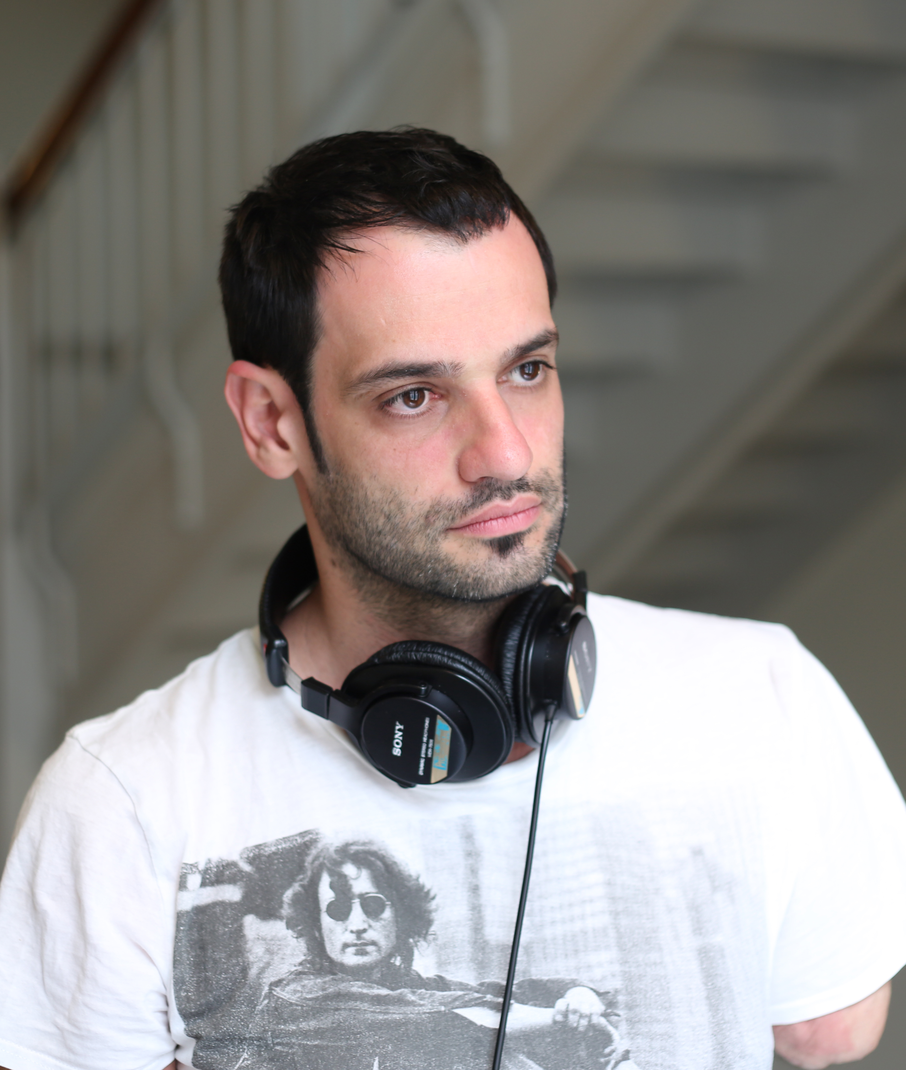 Director, Alex Lora, during filming of Odysseus' Gambit. This photograph was taken by me on October 2010 in New York City.